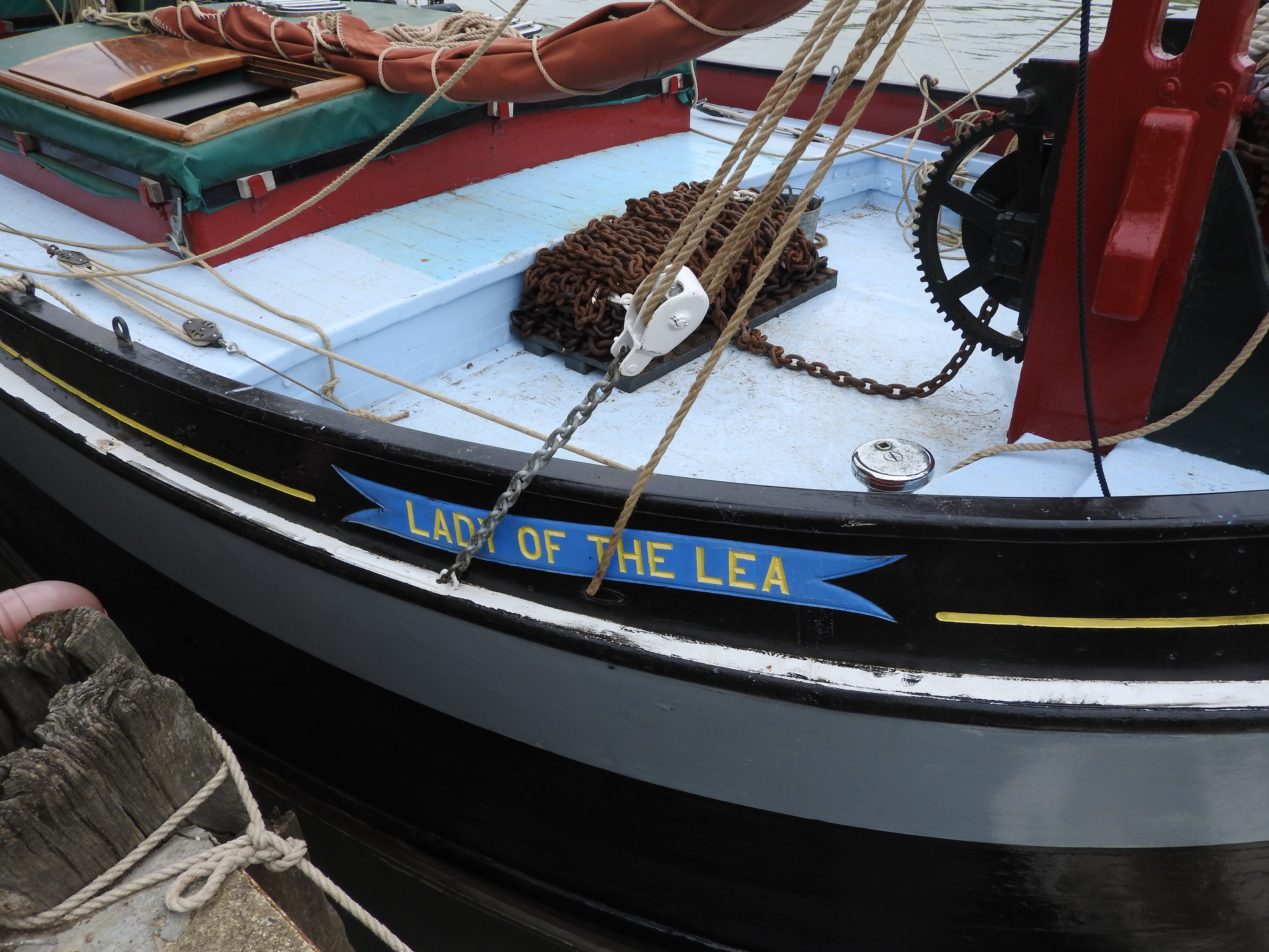 SB Lady of the Lea was the last Thames sailing barge ever built-built in wood, in 1931 in Rotherhithe to carry explosives from Waltham Abbey. She is 72 feet (22 m)in length.